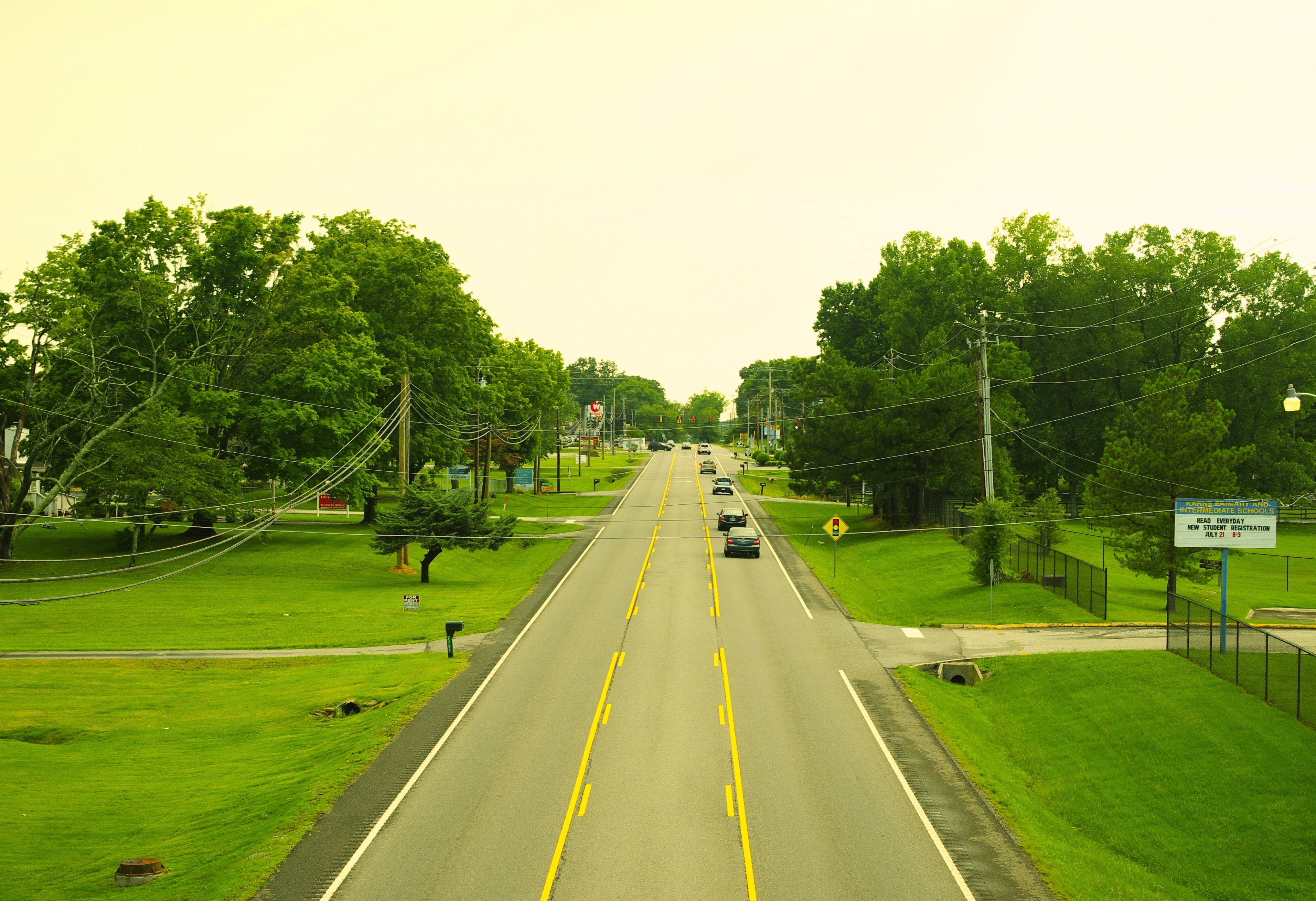 Oak Ridge Highway (Tennessee State Route 62) passing through the Karns community of Knox County, Tennessee, United States. This view is from the pedestrian bridge at the Karns Intermediate and Primary Schools.